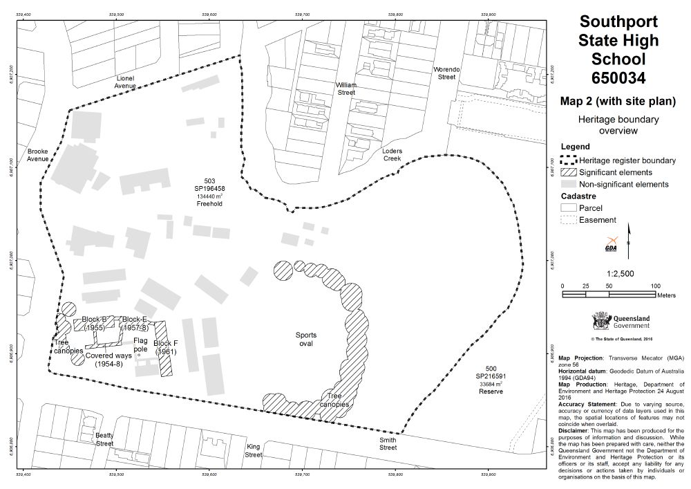 650034 Southport State High School - Map 2 (2016)